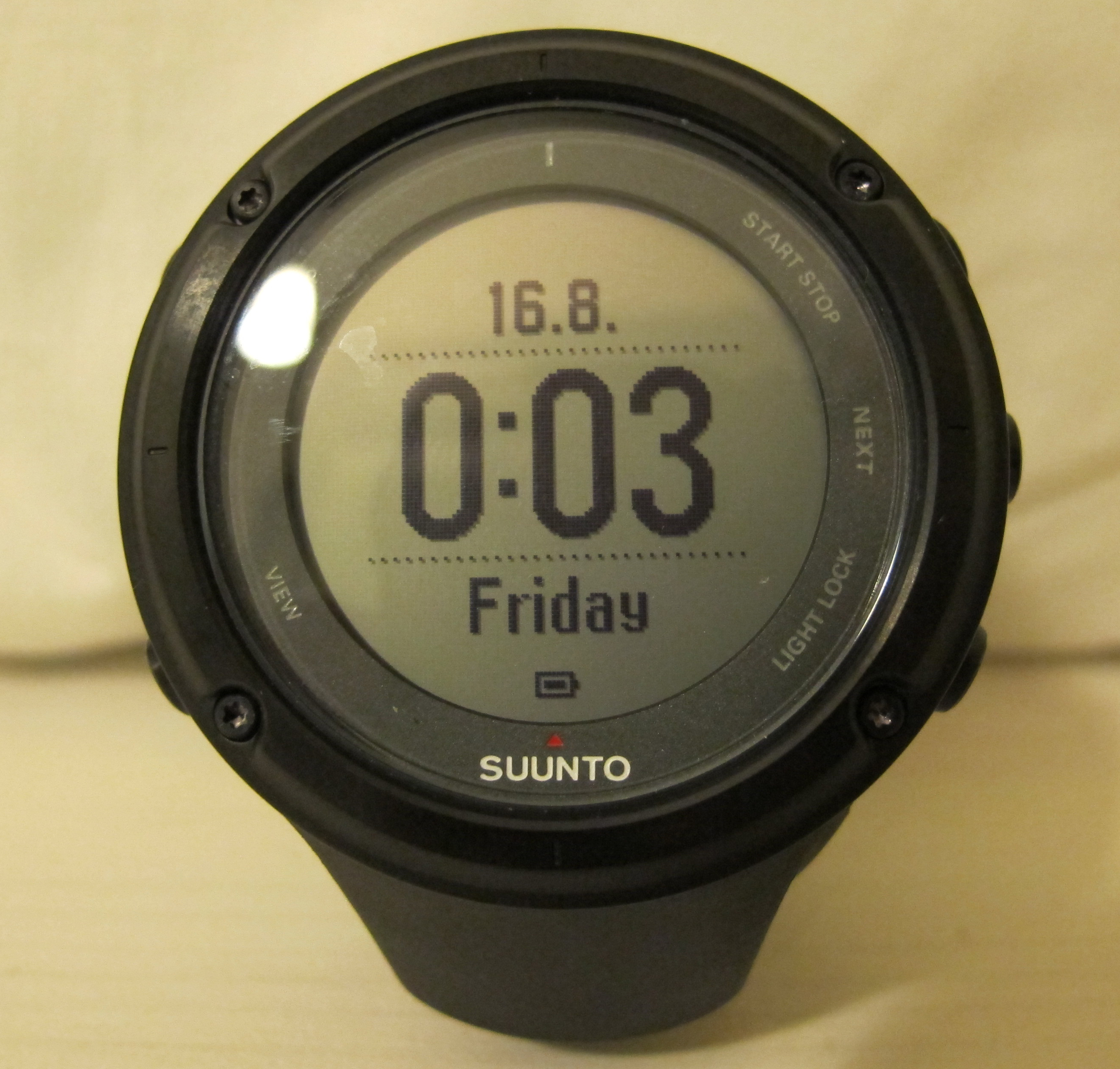 Suunto Ambit2 Black